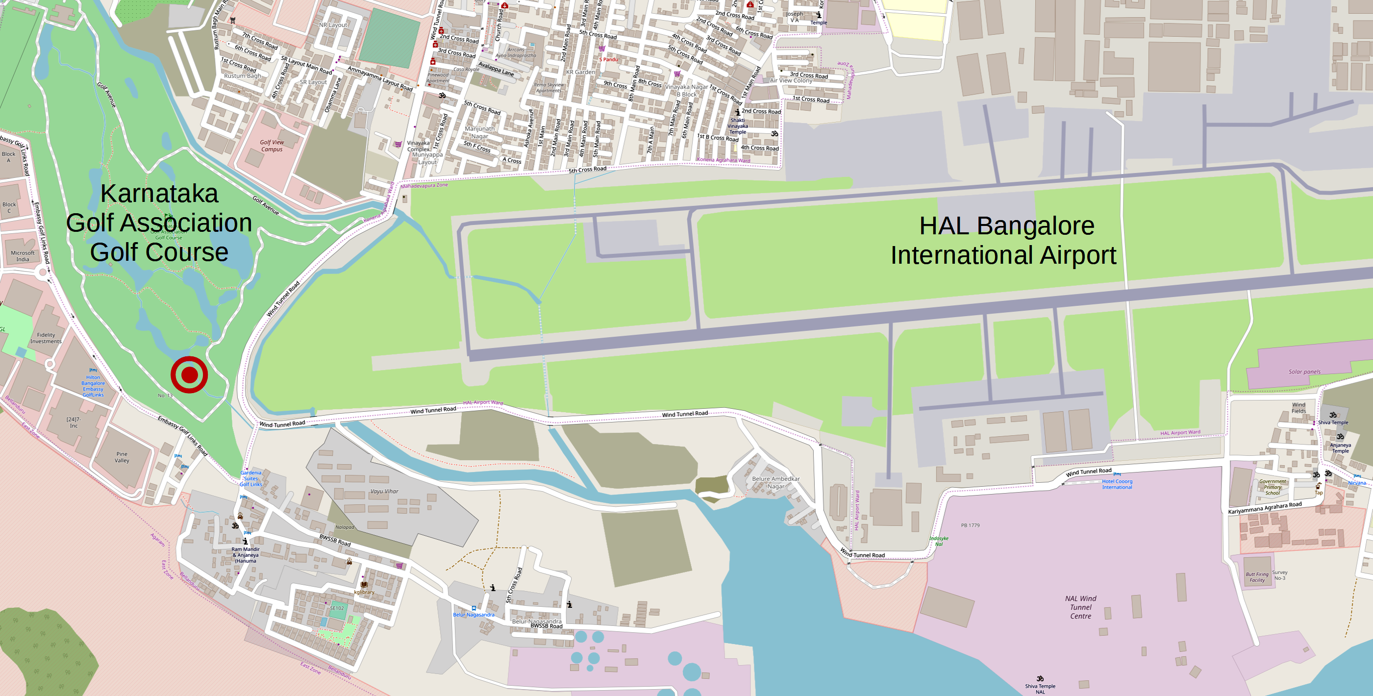 Crash position of Indian-Airlines-Flug 605 at HAL Bangalore International Airport 1990